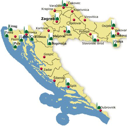 made it myself